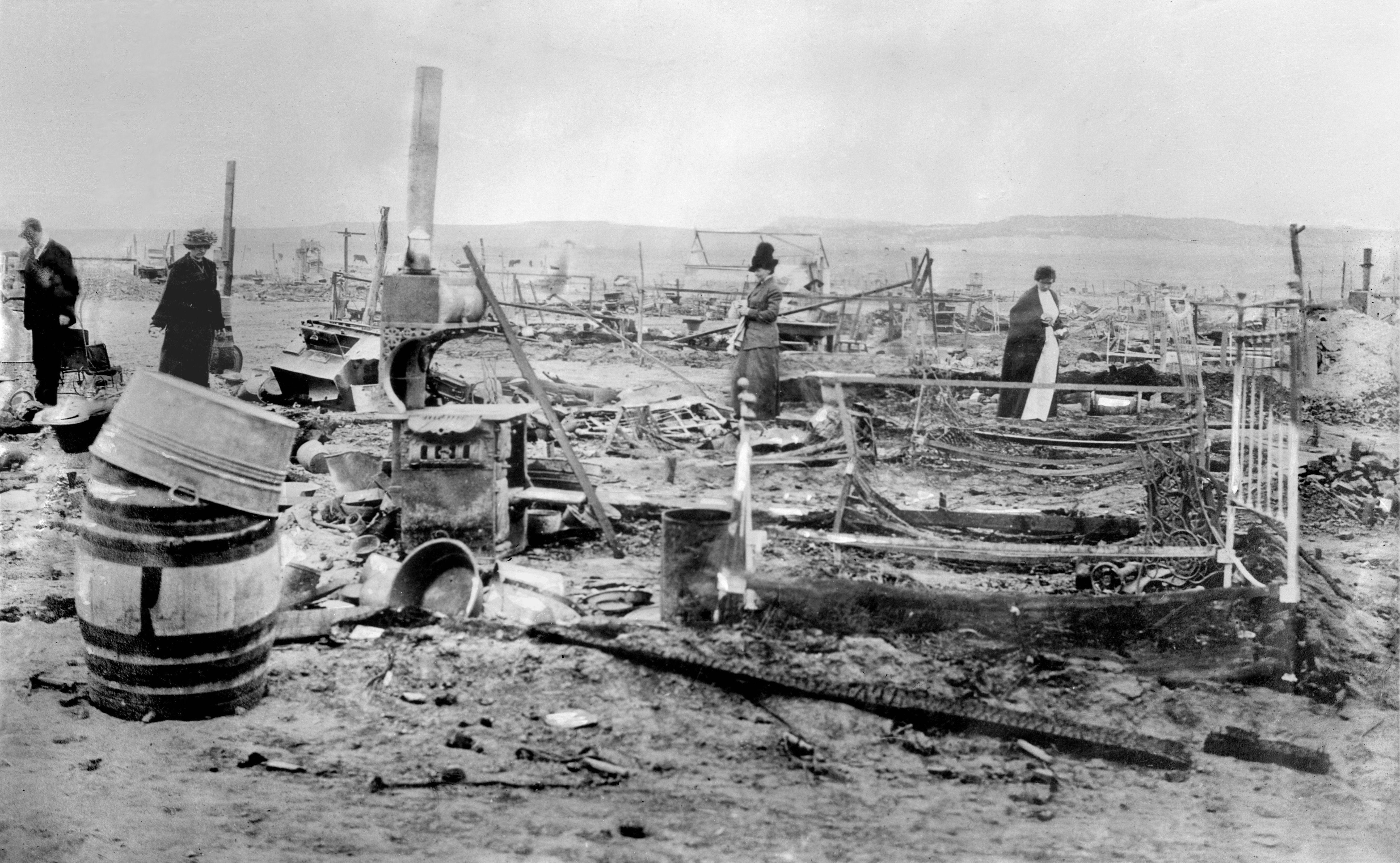 Ruins of the Ludlow Colony near Trinidad, Colorado, following an attack by the Colorado National Guard. Forms part of the George Grantham Bain Collection at the Library of Congress.